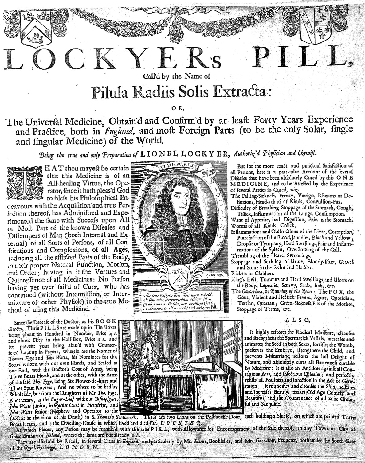 Broadsheet advertsing L.Lockyer's patent medicine Wellcome Images Keywords: Lionel Lockyer